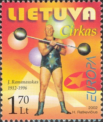 Lithuanian postage stamp ‘EUROPA.CIRKAS’. More details: The man in stamp – Jonas Ramanauskas (1912-1996) as power juggler, known lithuanian circus artist.